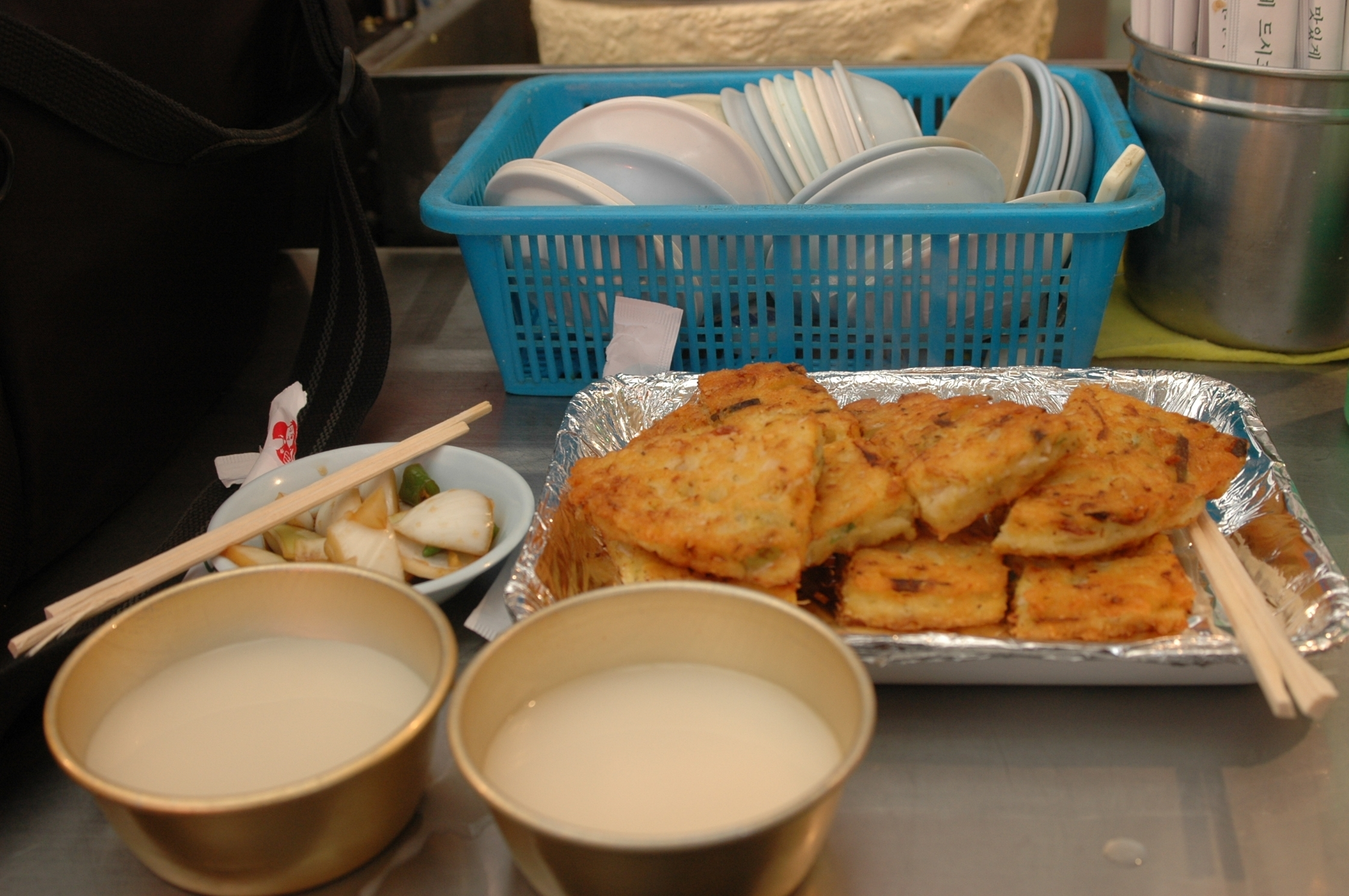 Bindaetteok (ground mung bean pancakes) are served in small pieces with onion marinated in soy sauce. Korean rice wine, 'makgeolli', complements the pancakes very well. Taken at Gwangjang Market, South Korea